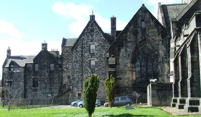 Place of Paisley Joined to Paisley Abbey, these crow-stepped buildings are all that remain of the once extensive monastery that occupied this site.